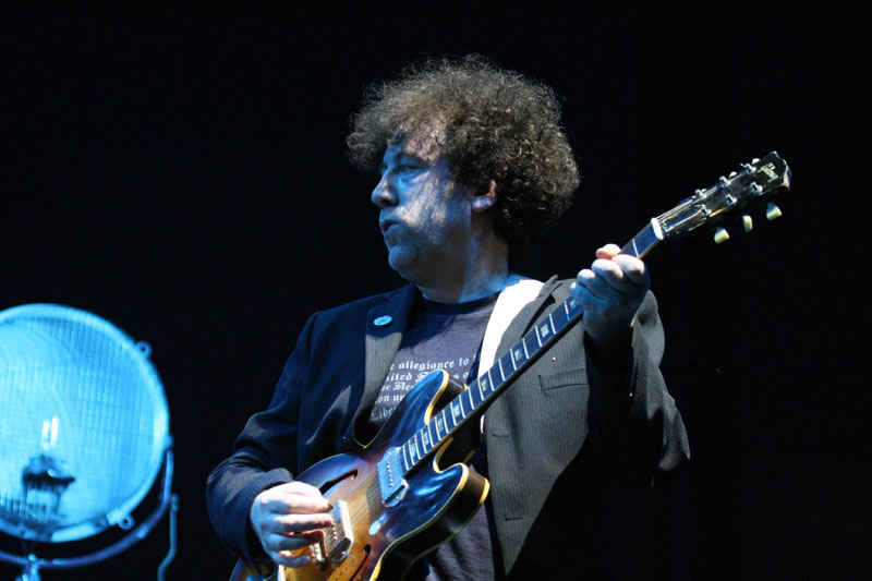 William Reid (Jesus and Mary Chain) on stage at Coachella 2007